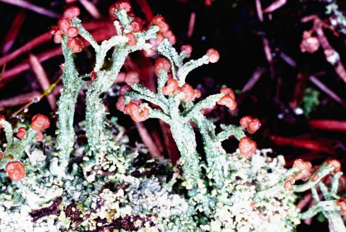 Cladonia peziziformis (With.) J.R. Laundon, 1984 Photographed in the field. This specimen of Cladonia peziziformis was growing on a pile of asphalt along the Red Trail (northern section) near Deer Park Road at the Soldiers Delight Natural Environment Area, Baltimore County, Maryland, USA (N 39o24.913', W 76o50.127'). Identification determined by Edward C. Uebel, 9 May 2003